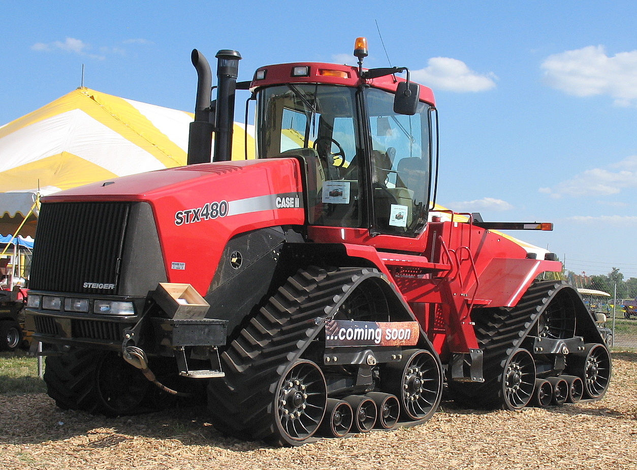 CASE STX480 tractor